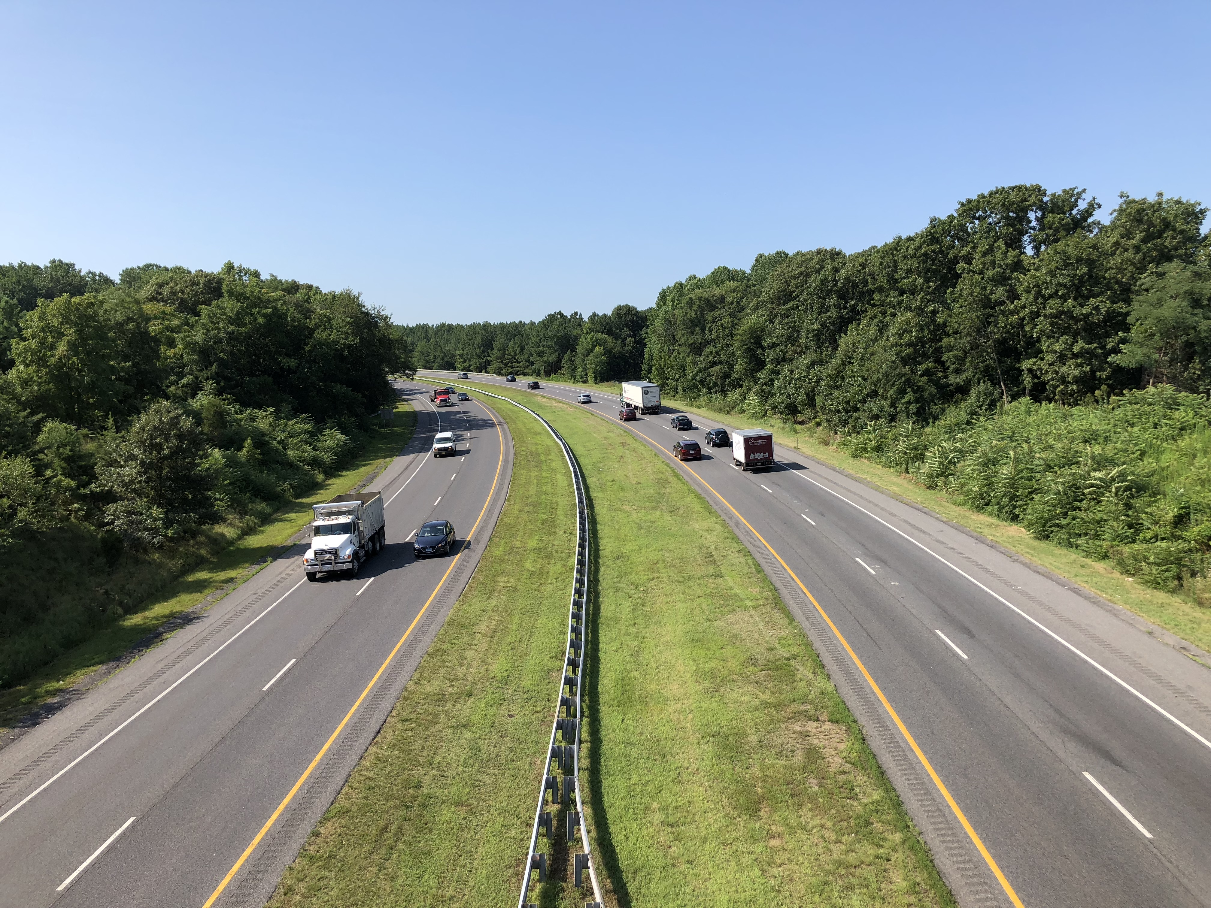 View south along Interstate 97 from the overpass for northbound Maryland State Route 3 (Robert Crain Highway) in Millersville, Anne Arundel County, Maryland